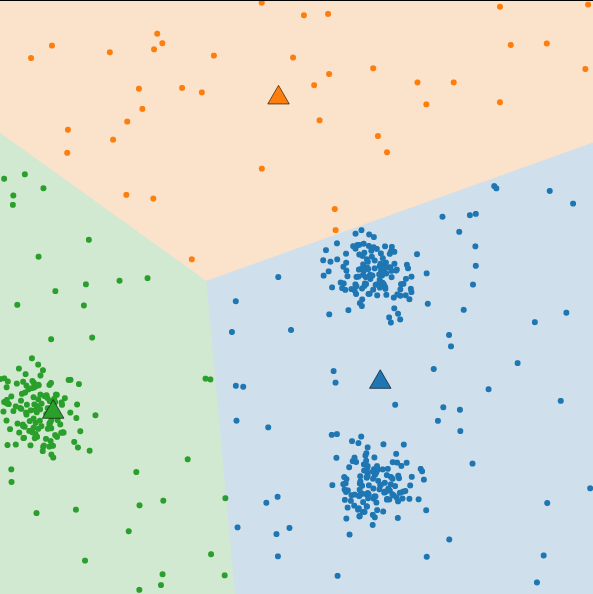 Kmeans wronginit2